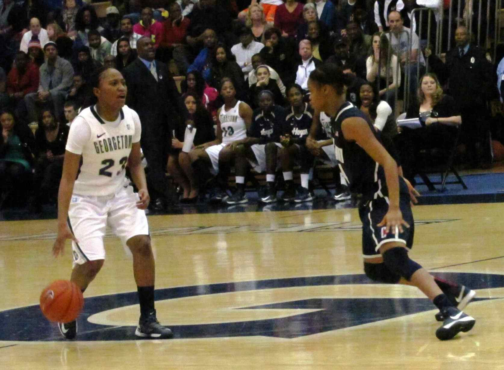 Moriah Jefferson guarding Georgetown's Samisha Powell, in a game where Moriah had seven steals. The game was in McDonough Gymnasium, 9 January 2013.